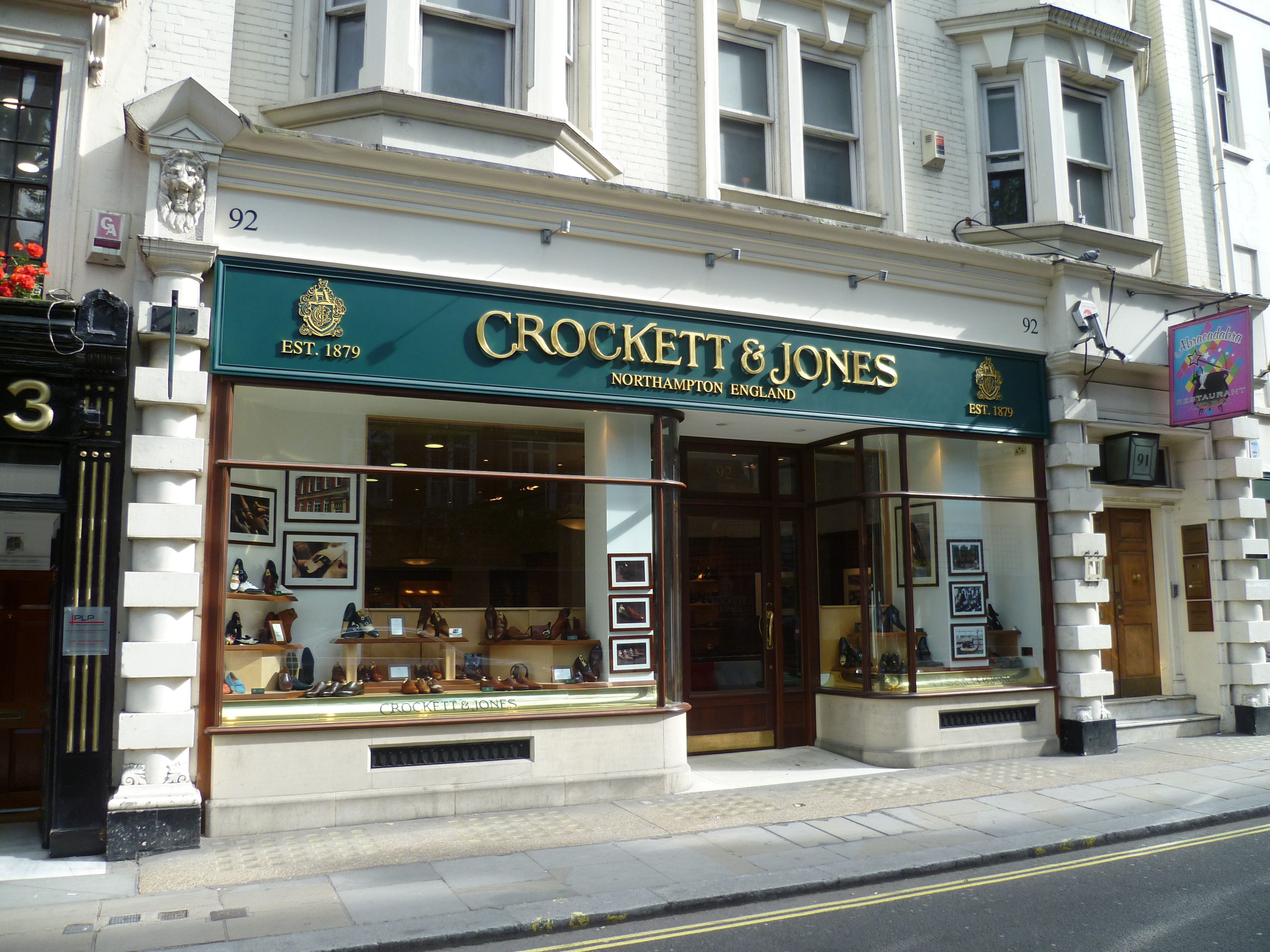 London